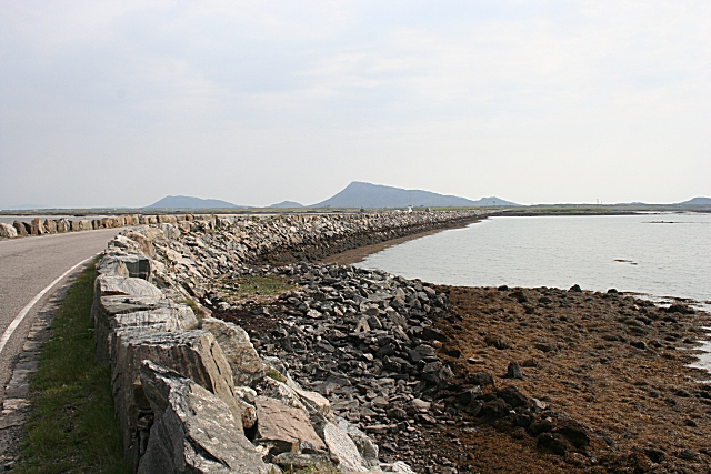 North Ford Causeway The island of Benbecula is linked to both North Uist and South Uist with causeways across the sand flats which formerly separated them. The distant mountain is Eabhal (Eaval).